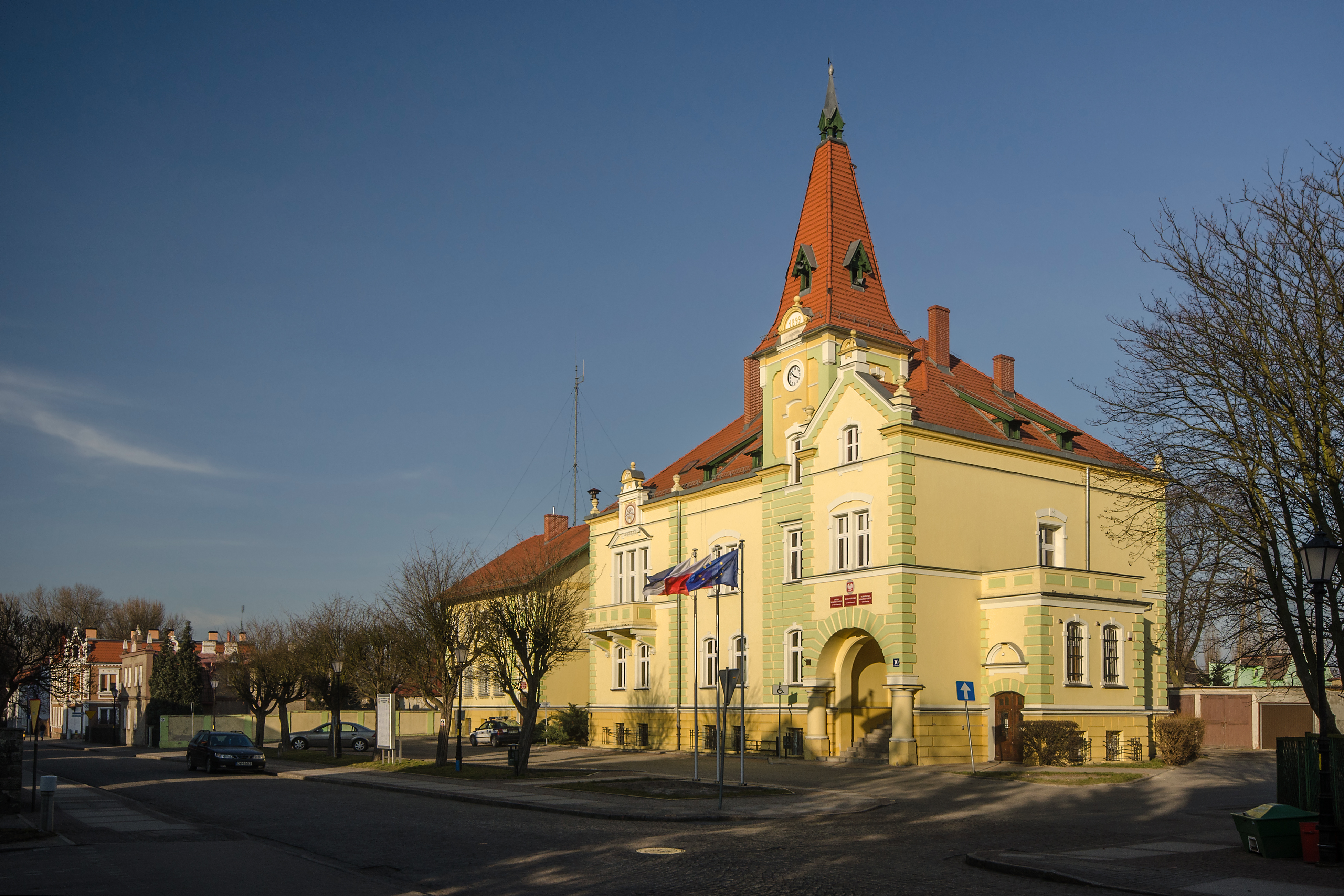 Town Hall in Chocianów, Lower Silesia voivodeship